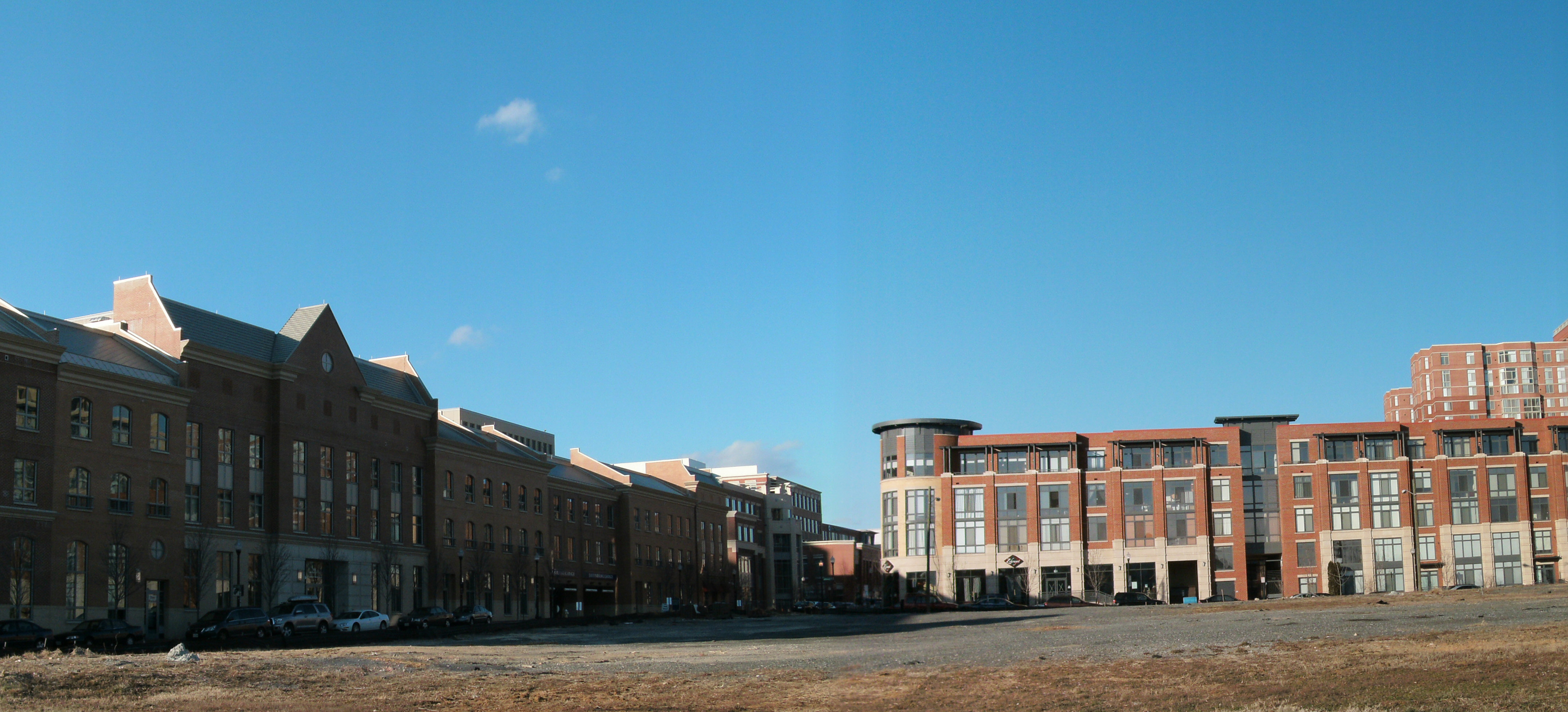 Stitched image created by me for Wikipedia from a series of photographs I took myself